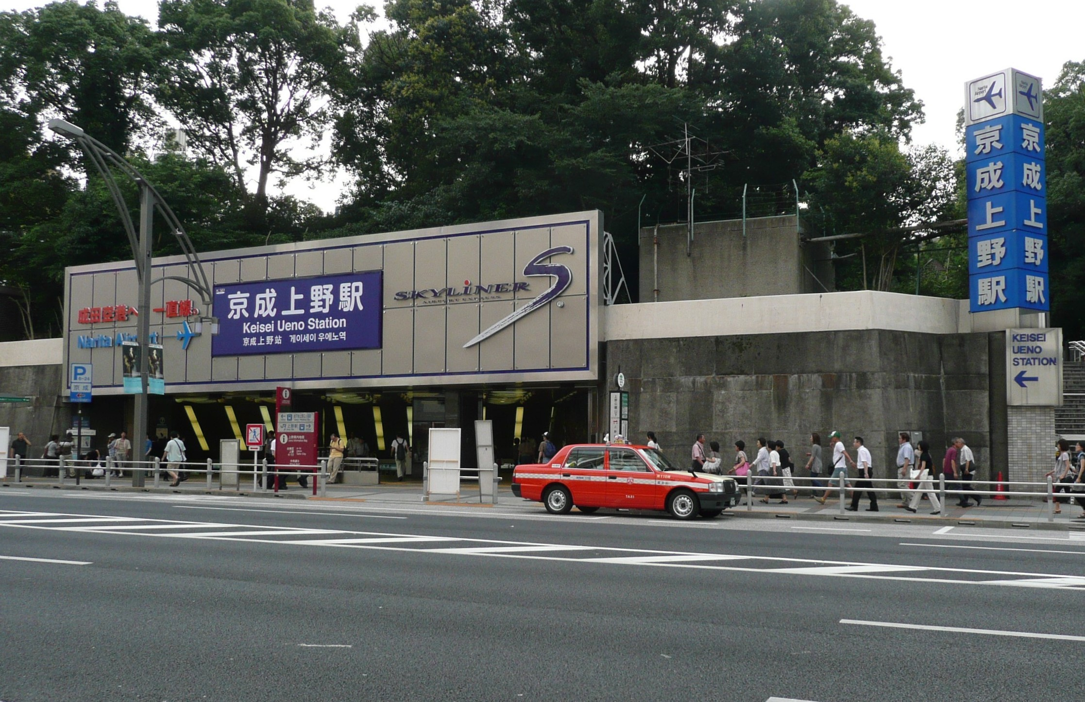 The exterior of Ueno Keisei Station in Tokyo, Japan